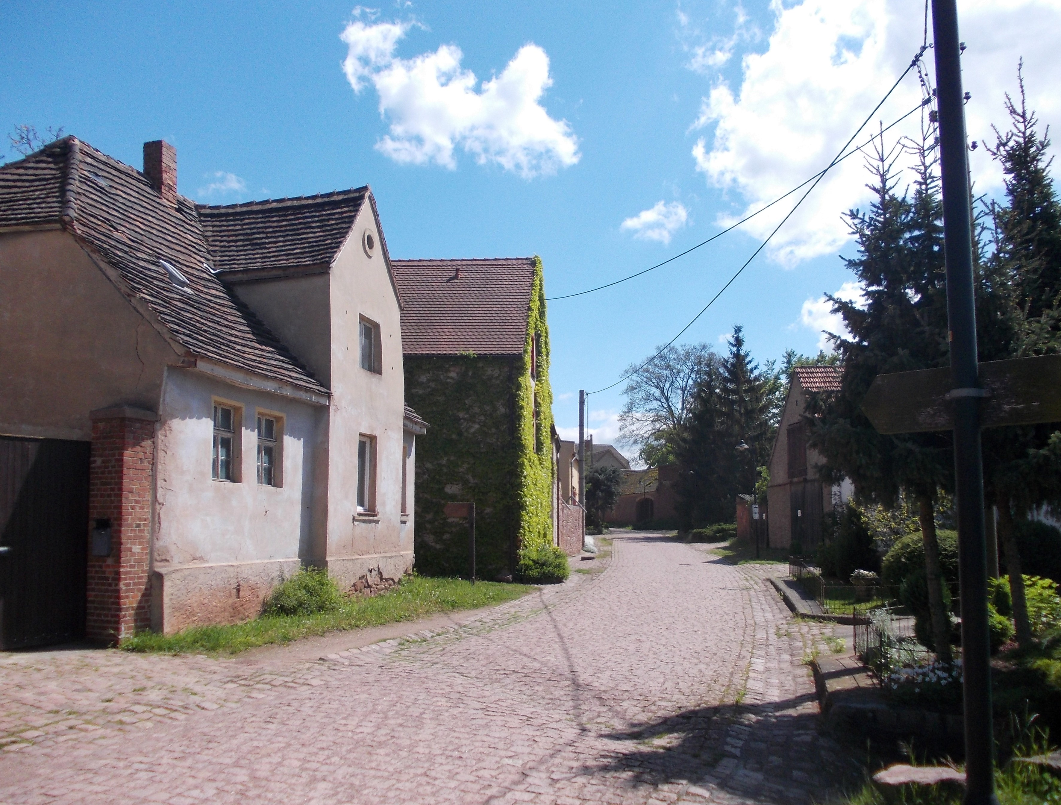 Rothenburger Strasse in Dobis (Wettin-Löbejün, district: Saalekreis, Saxony-Anhalt)